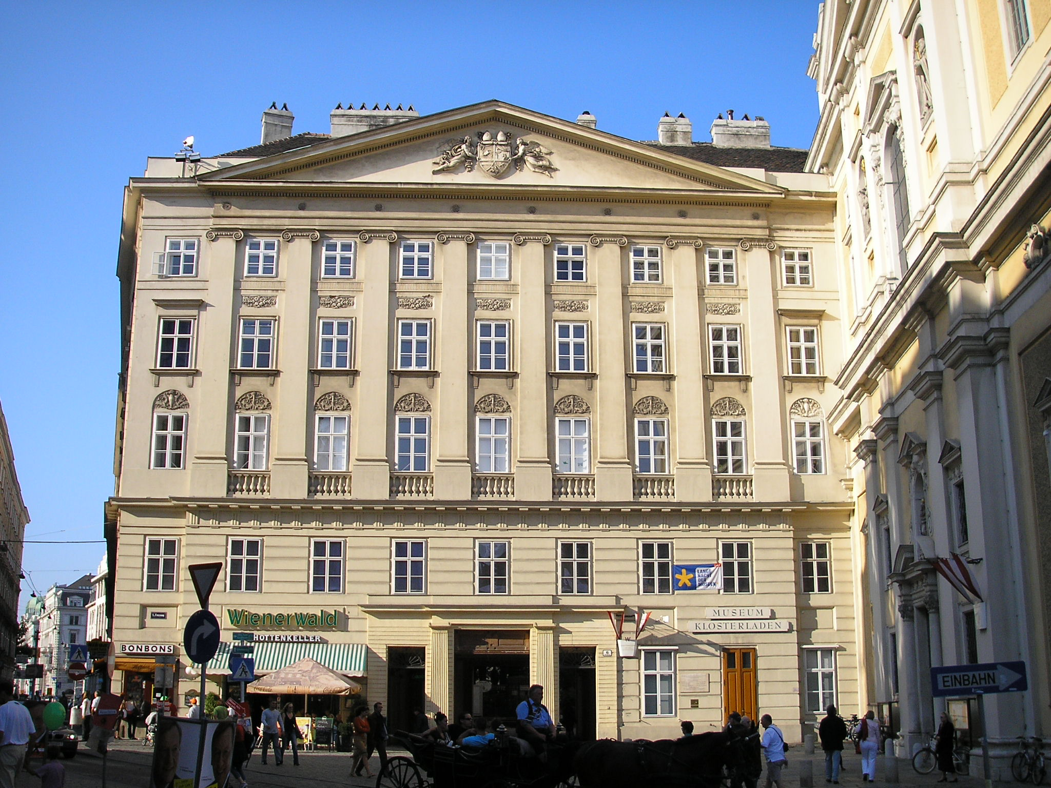 View of the Schottenstift in Vienna's first district Innere Stadt.